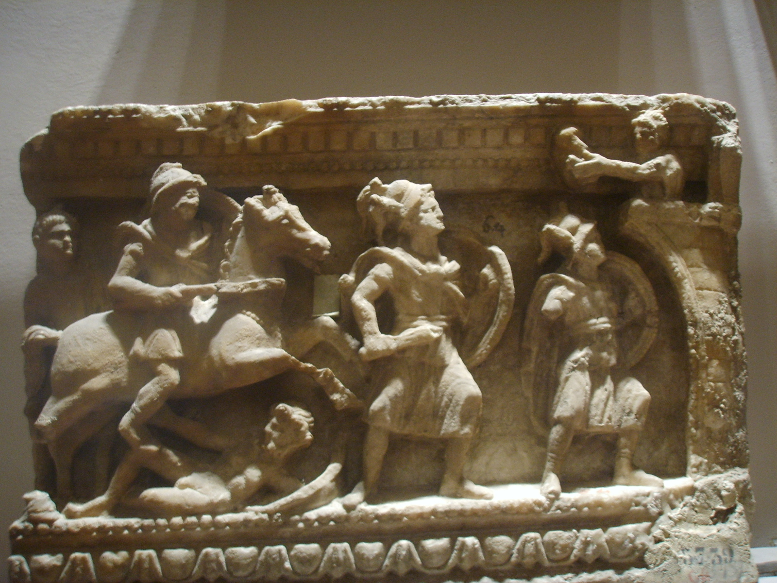 Cinerary urn in the Archaeological museum in Florence.